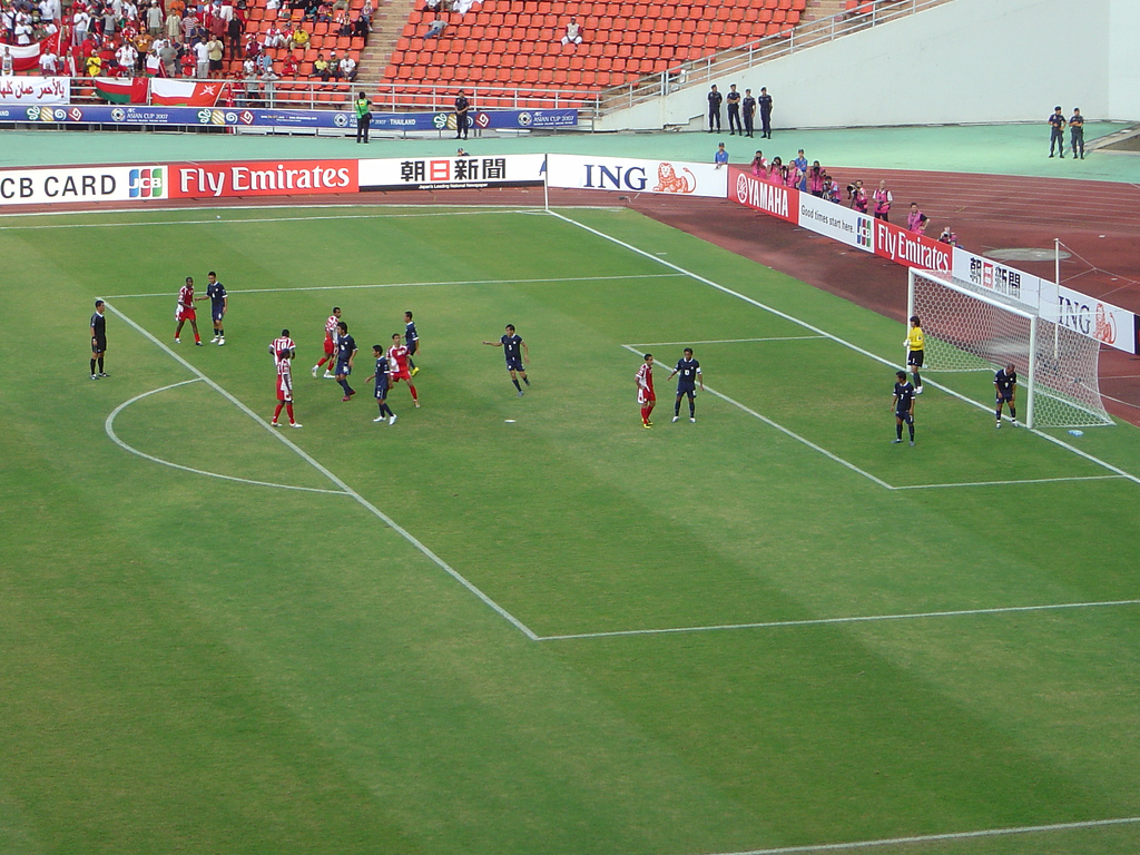 During the match